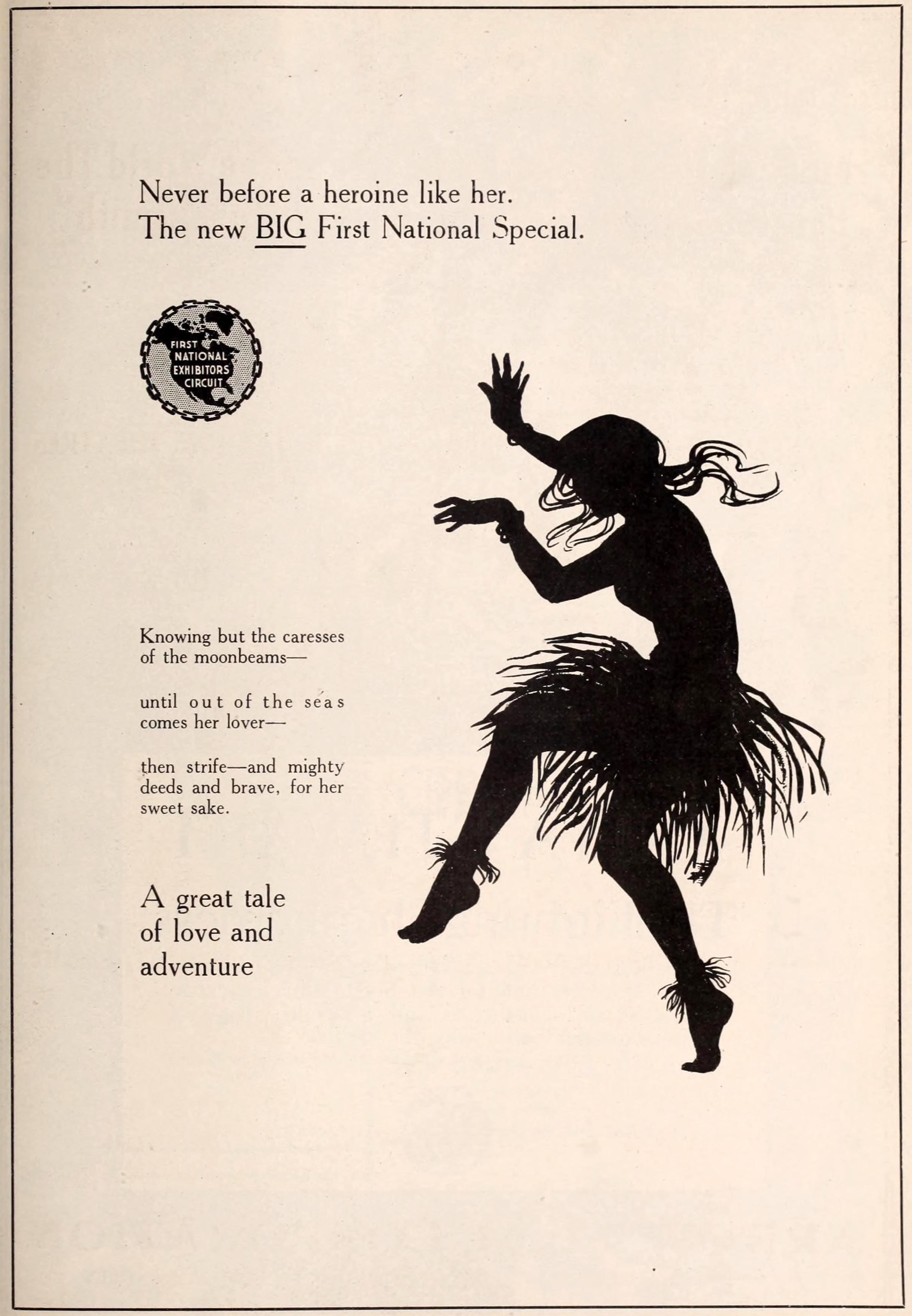 Teaser advertisement for the American drama film The Idol Dancer (1920), on page 11 of the March 13, 1920 Exhibitors Herald.